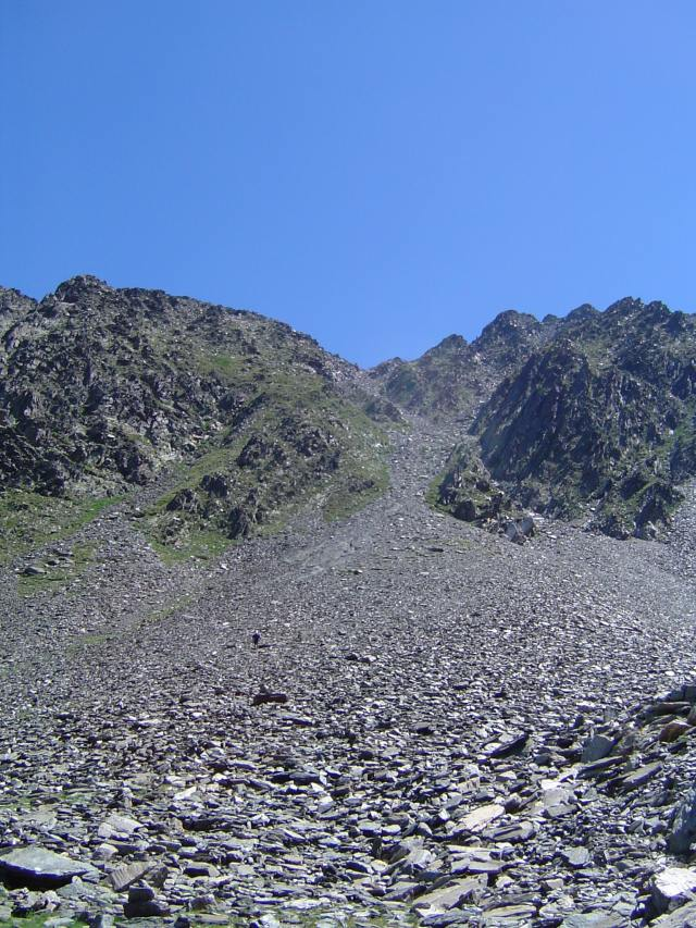 Photo du Carlit (2921m) PO France 2005. Cevenol2